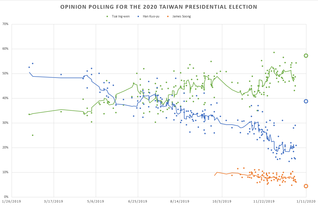 2020 Taiwan presidential election opinion polls